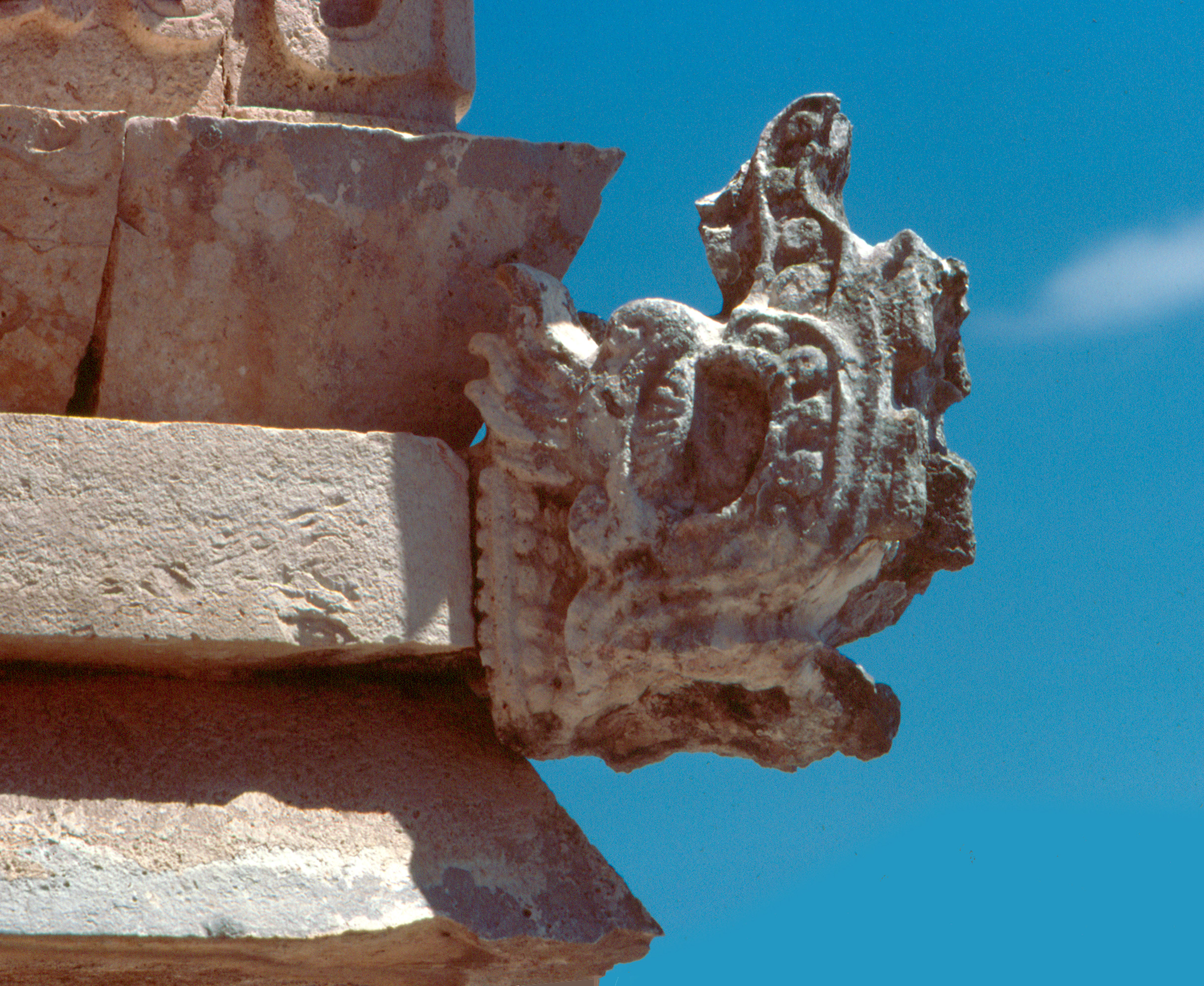 Uxmal, Yucatan, Mexico: House of the Governor, corner of medial molding.